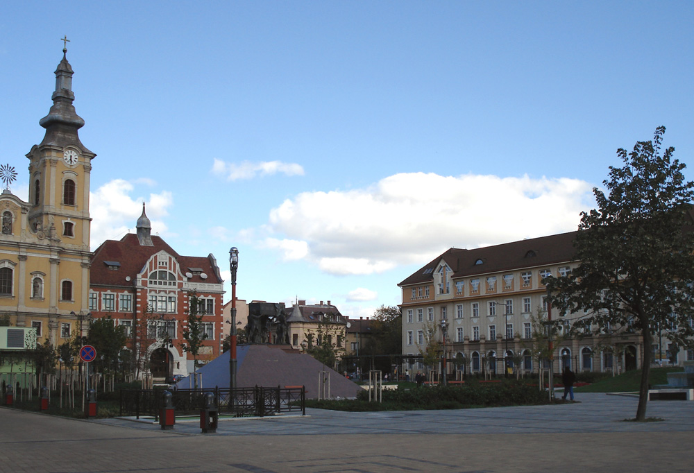 Main building of the General Post Office (Post Palace) from the Heroes' Square, right, Miskolc, Hungary